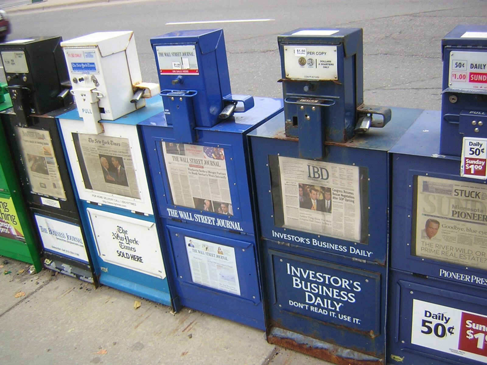 Newspapers on Washington Avenue (Minneapolis) in Minneapolis, Minnesota, USA